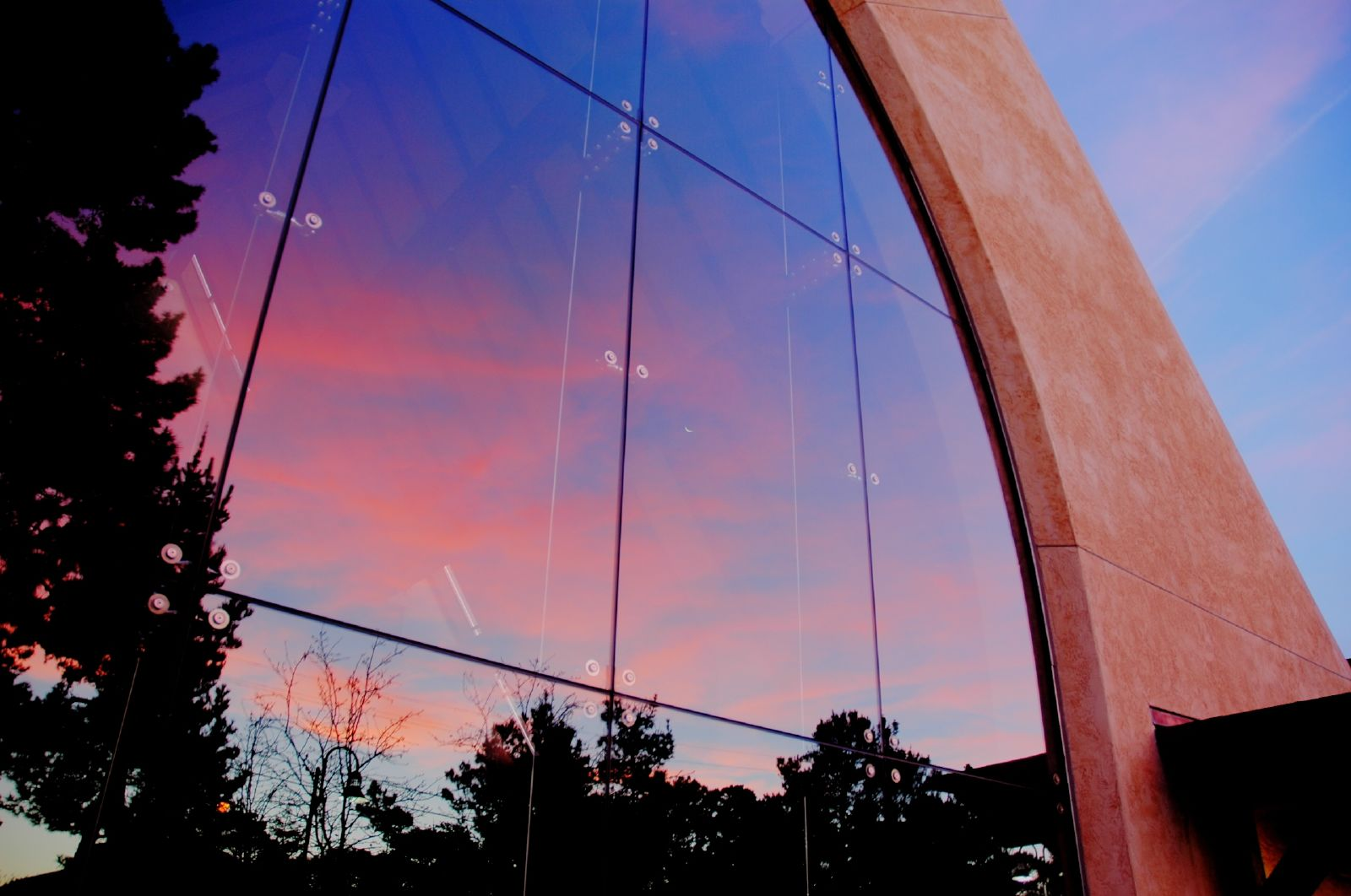 Sunset Center, San Carlos St., between 8th and 10th Sts. Carmel-by-the-Sea